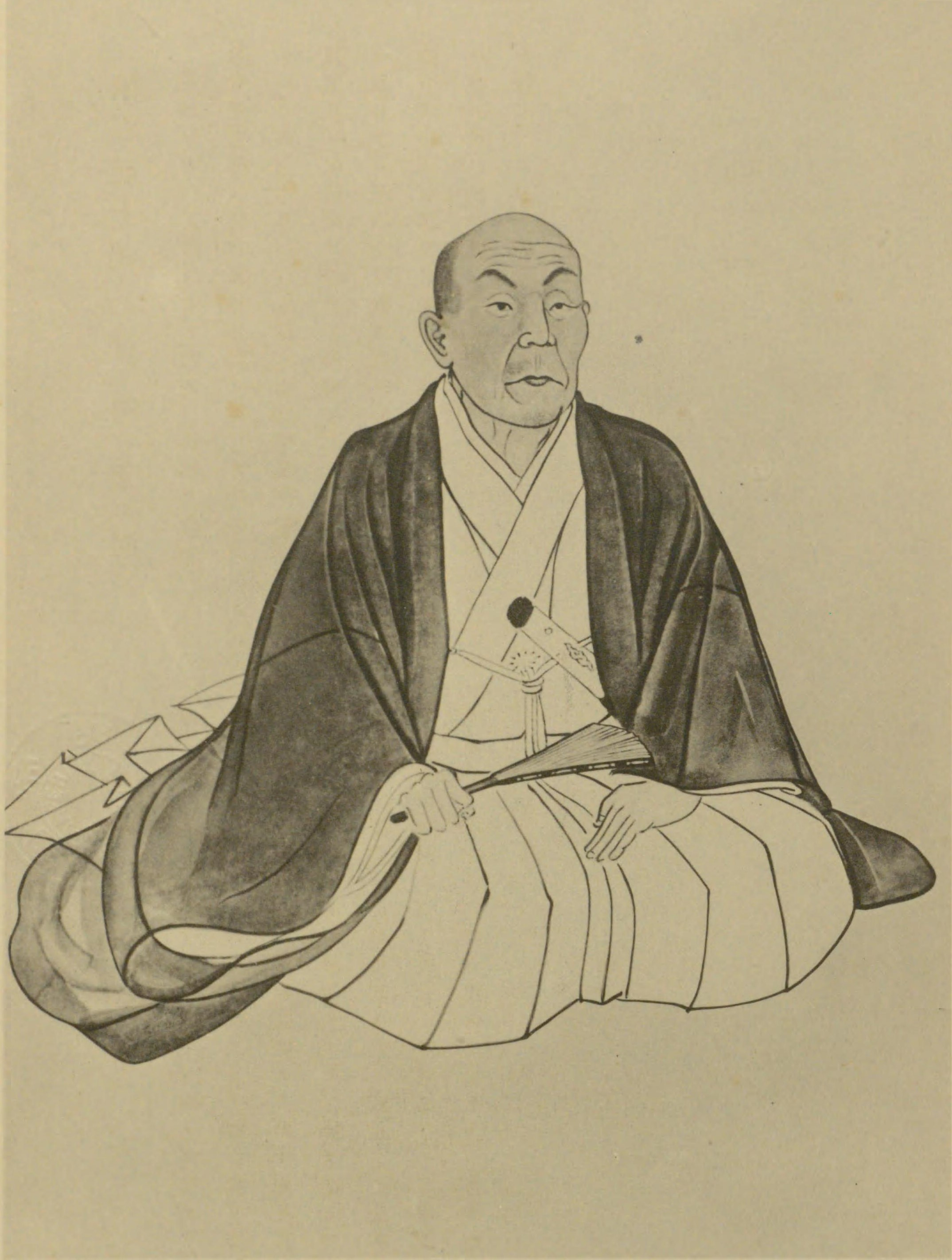 Portrait of Takenouchi Gendo